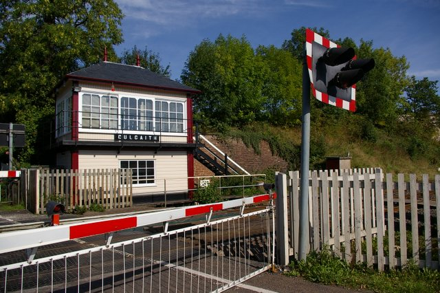 Culgaith Crossing. Two Km squares meet on this crossing. East for 6129. West for 6029.